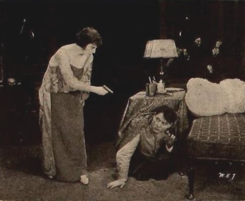 Still from the American film Number 99 (1920) with Fritzi Brunette and J. Warren Kerrigan, on page 4178 of the May 15, 1920 Motion Picture News.